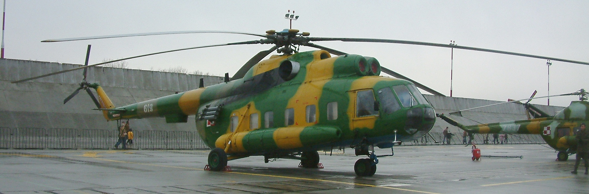 Mi-8S #619 of Polish Air Forces, 31st. Air Base Poznań-Krzesiny